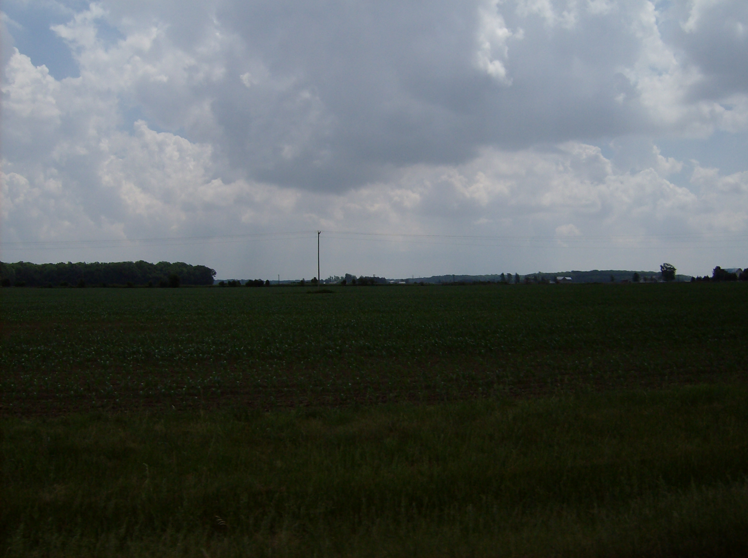 View of farmland in Madison Township, Hancock County, Ohio, United States. Picture taken looking eastward from U.S. Route 68.